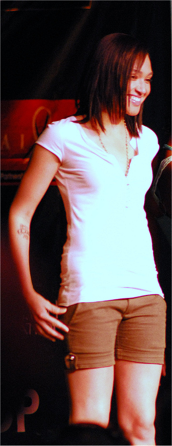 Naima Mora - finalist and winner of ANTM run 4